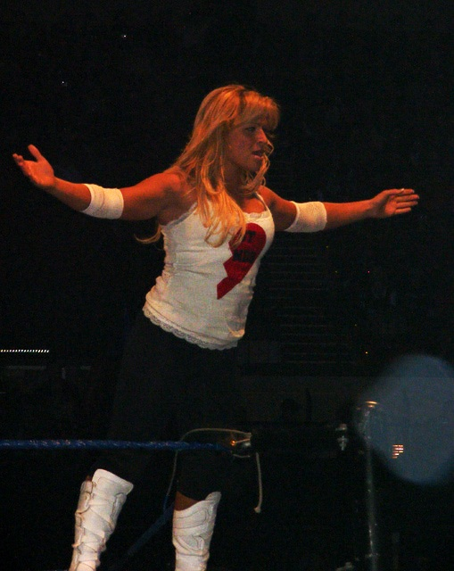 Natalya @ Adelaide, South Australia 'Smackdown/ECW' house show on the 14th of June '08